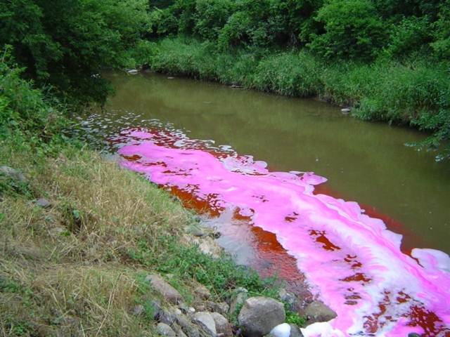 Rhodamine tracer injection